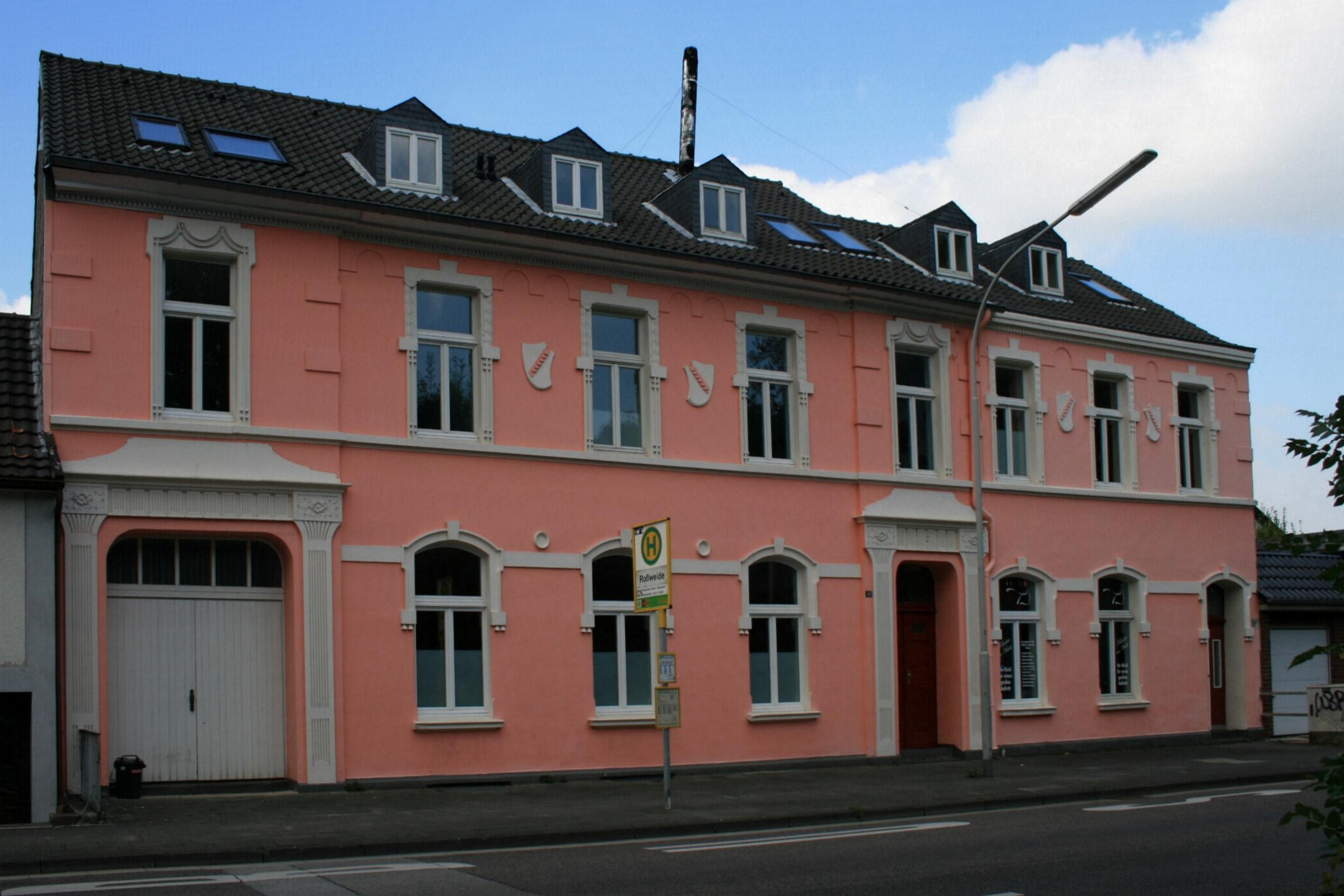 Cultural heritage monument No. H 067 in Mönchengladbach